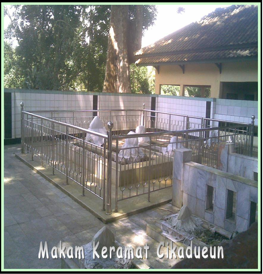 Tempat dipusarakannya Syekh Manhuruddin